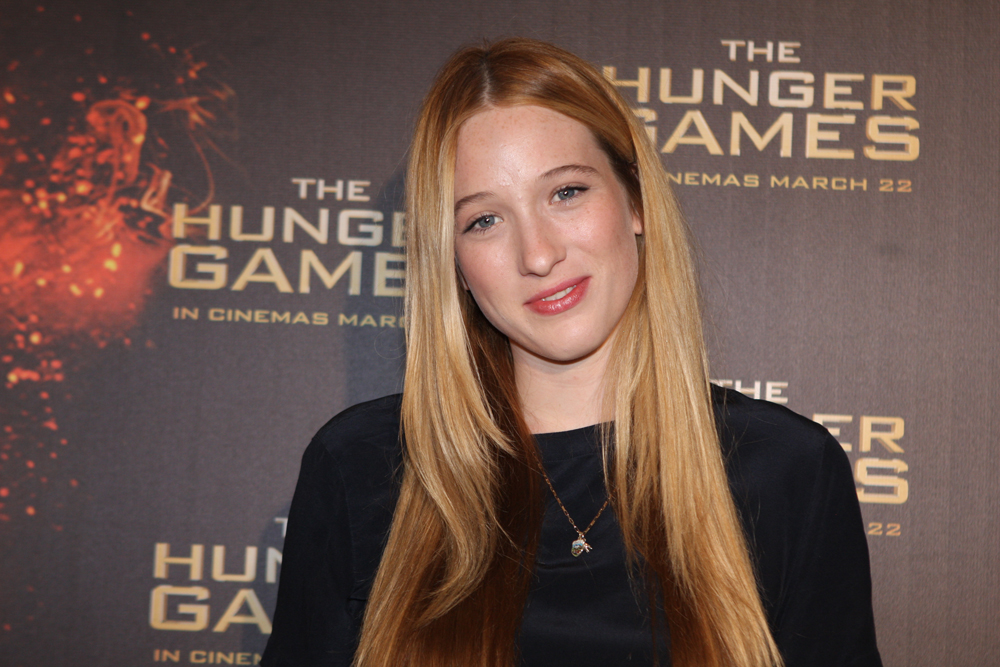 Sophie Lowe at the Hunger Games Sydney Premiere And Review